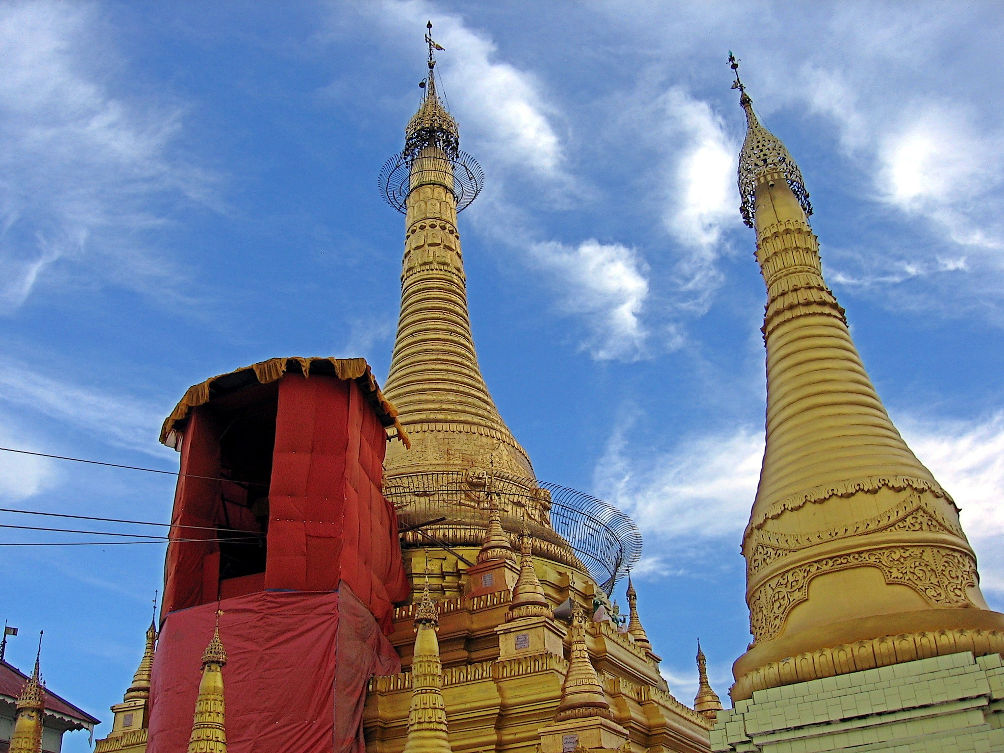 Shwezigon Paya in Monywa, Myanmar.